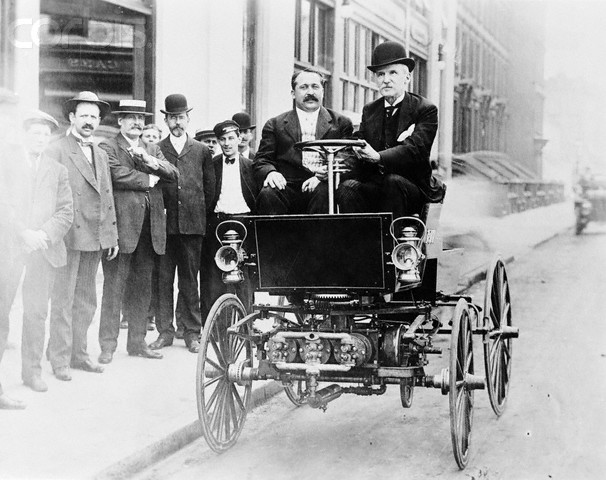 George B Selden (with hat) driving in his automobile in 1905. The vehicle is a more or less accurate replica of his road engine which he dated 1877, but was still unfinished when he applied for the patent in 1879.